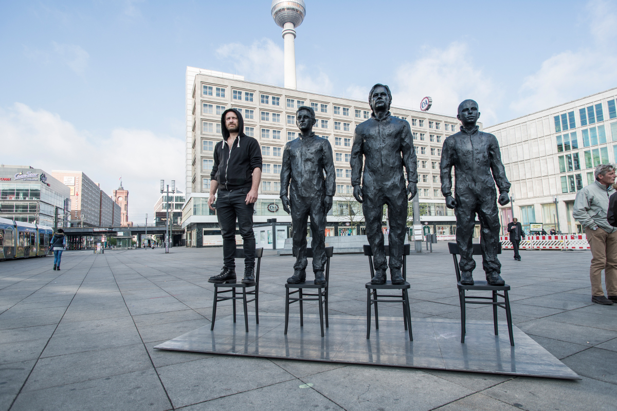 Bronze sculpture Anything To Say? and art installation by Italian Davide Dormino which was placed in Berlin's Alexanderplatz on May Day 2015.